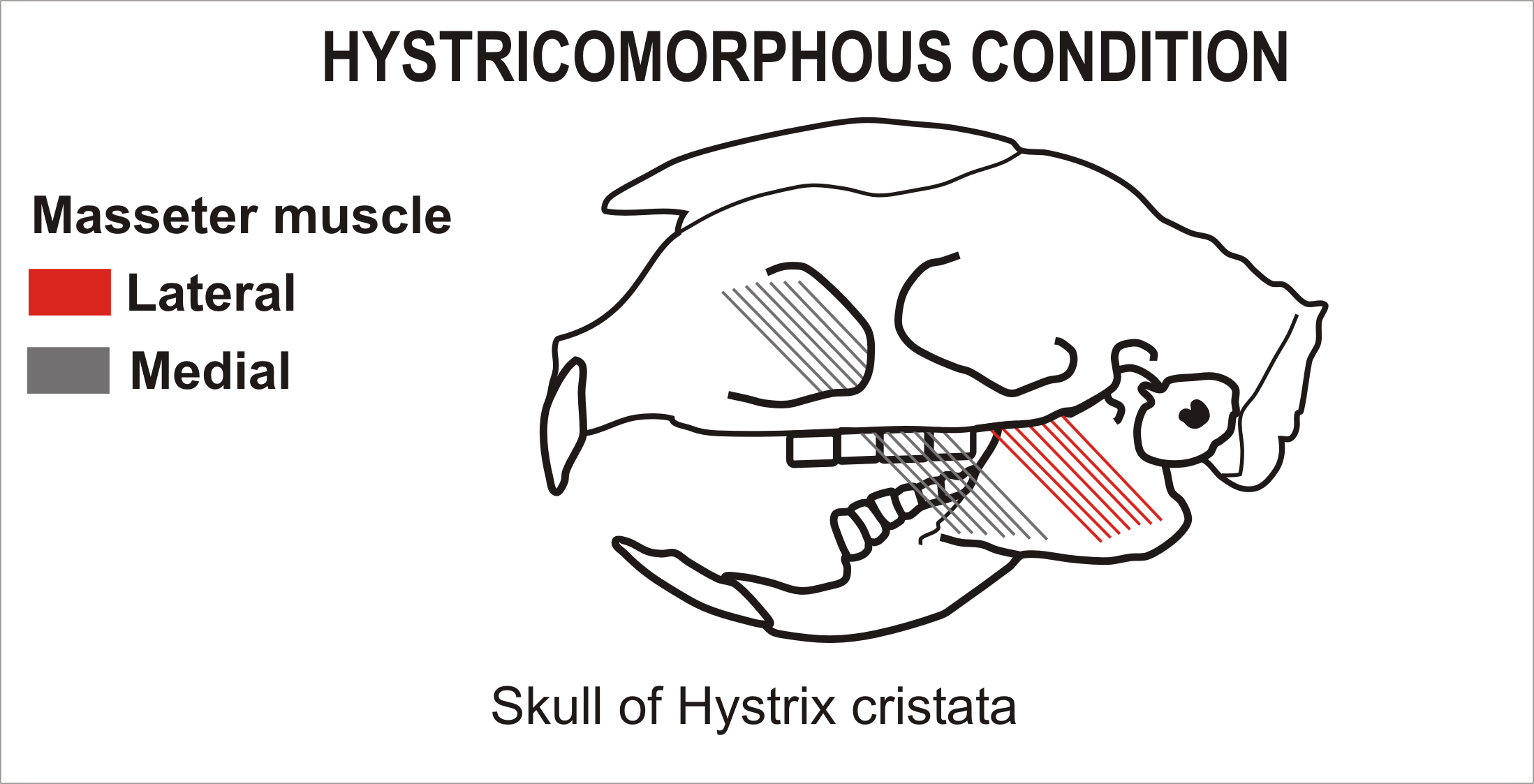 According to Romer, 1966